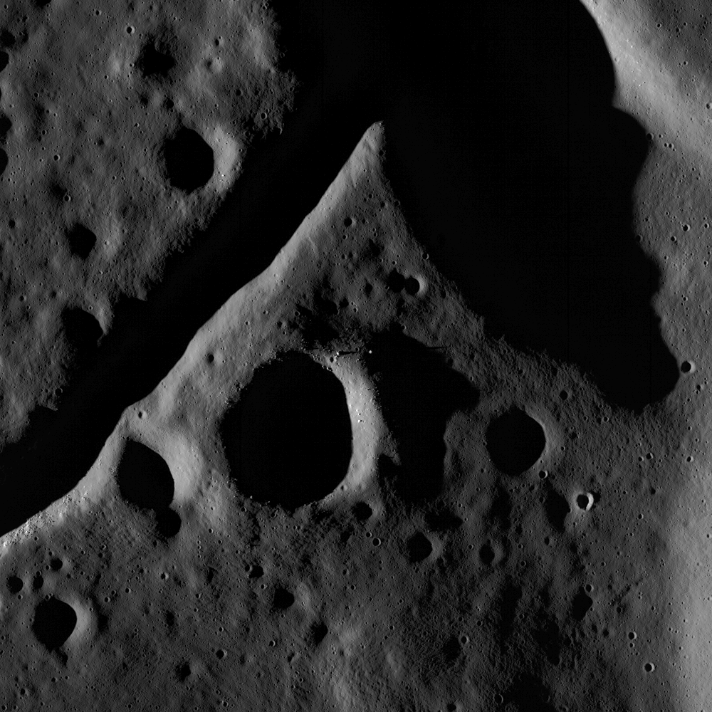 The central peak and fractured floor of Compton crater as imaged by the LROC Narrow Angle Camera at dusk, image width is ~1720 meters [NASA/GSFC/Arizona State University].